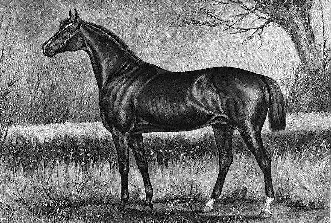 American Thoroughbred and 1883 Kentucky Derby winner Leonatus.